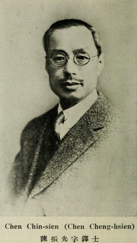 Chen Zhenxian (Ch'en Chen-hsien), Duoshi (1876 - 1938)